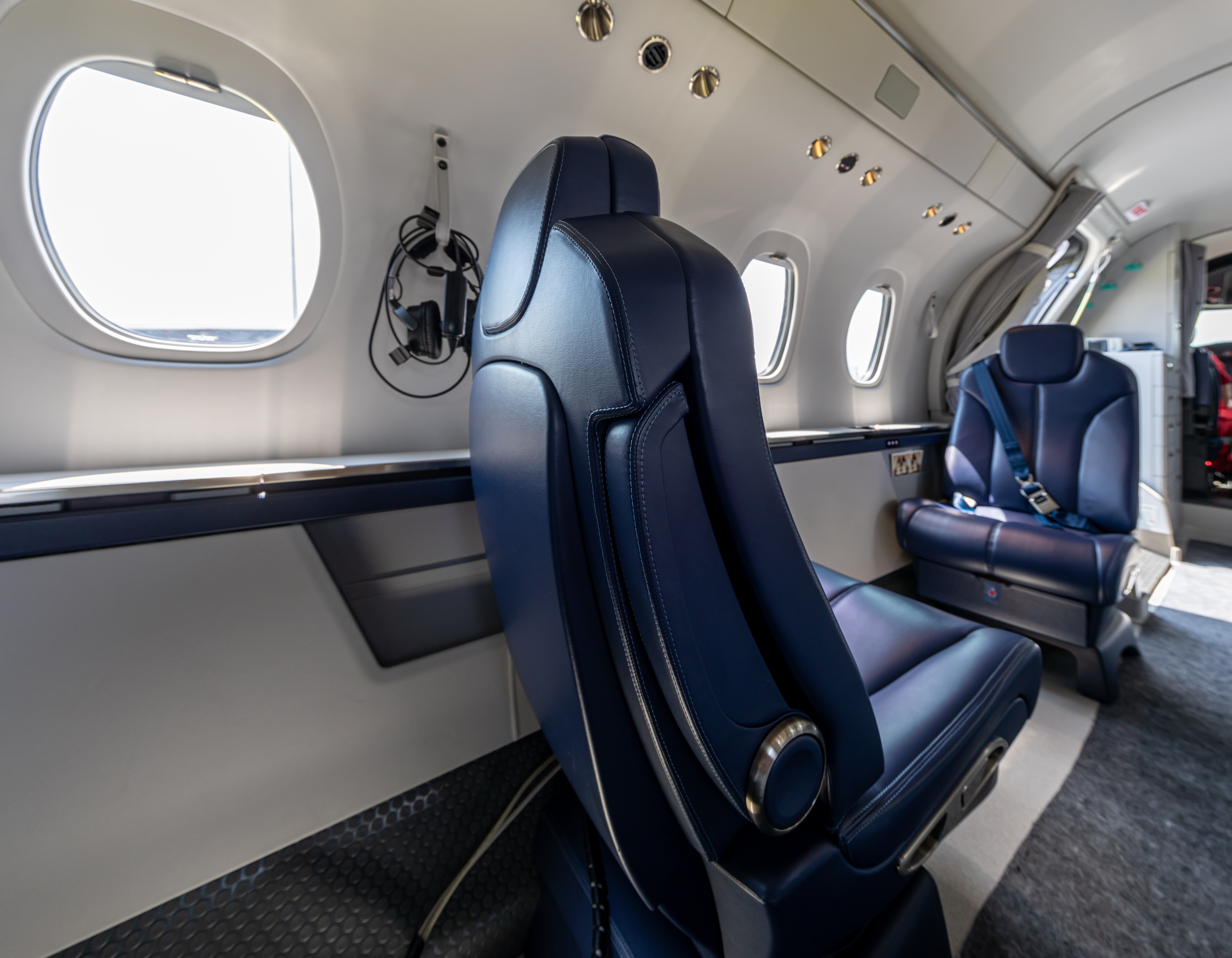 EBACE 2019, Palexpo, Switzerland